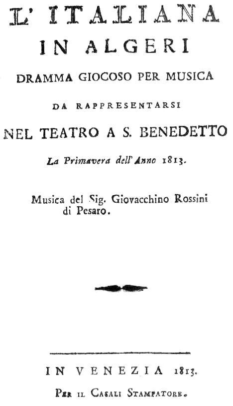 Gioachino Rossini - L’italiana in Algeri - Venice 1813